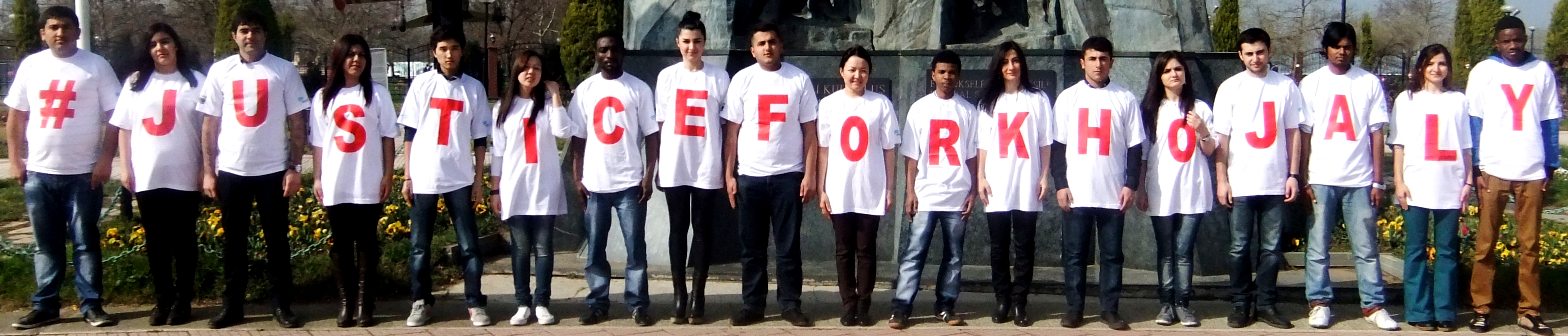 Justice for Khojaly